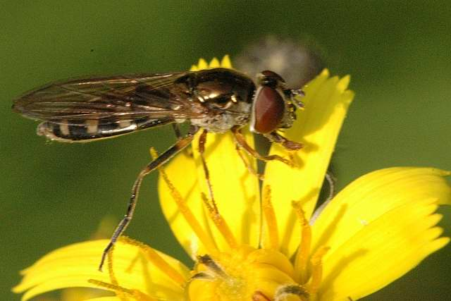 Platycheirus tarsalis from Commanster, Belgian High Ardennes .